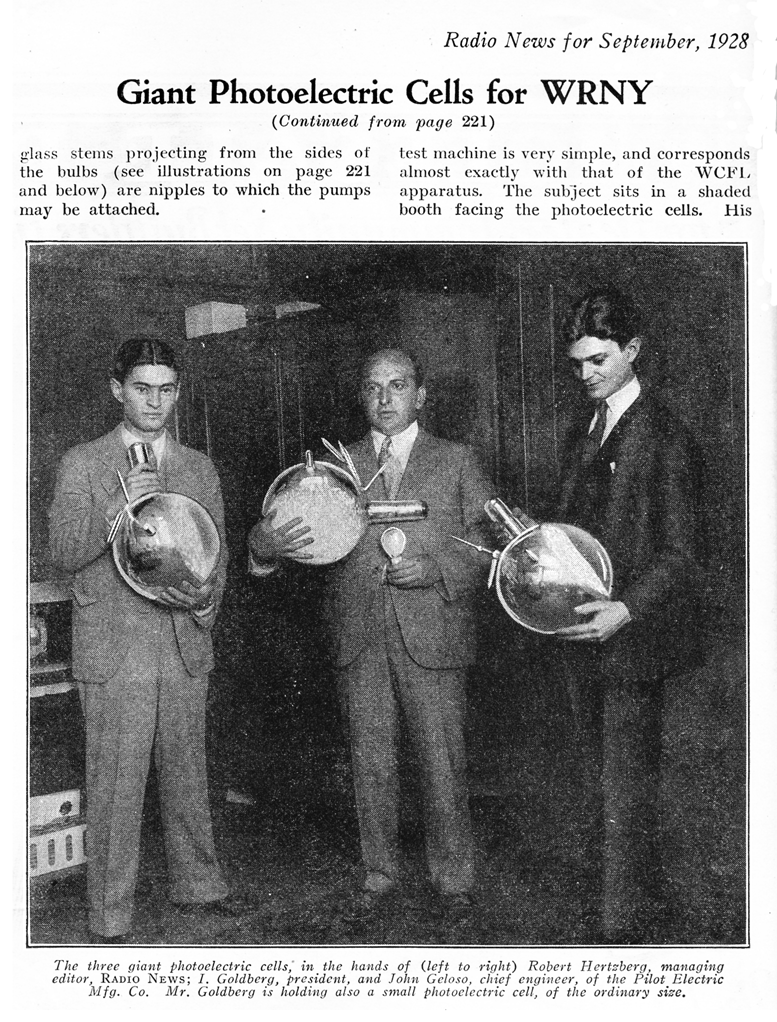 Giant Photoelectric Cells for WRNY'S Television Transmitter. Image cropped from page 256. Radio News, September 1928. Volume 10 Number 3. Published by Experimenter Publishing, New York, NY Editor-in-Chief and Publisher: Hugo Gernsback Table of Contents Image:Radio News Sep 1928 pg194.png First page of this article Image:Radio News Sep 1928 pg221.png Second page of this article Image:Radio News Sep 1928 pg256.png